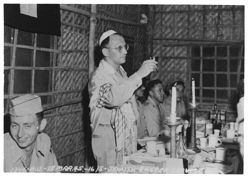 Title: Chaplain Jacob Rudin conducting Passover service Creator: Unknown Medium: Black and white photograph Date: March 28, 1945 Call Number: I-337.B10.F016.0205 Collection: National Jewish Welfare Board Records Persistent URL: Repository: American Jewish Historical Society Rights Information: No known copyright restrictions; may be subject to third party rights. For more copyright information, click here. See more information about this image and others at CJH Digital Collections. To inquire about rights and permissions, or if you have a question regarding the collection to which the image belongs, please contact the Reference Department of the American Jewish Historical Society by email. Digital images created by the Gruss Lipper Digital Laboratory at the Center for Jewish History.